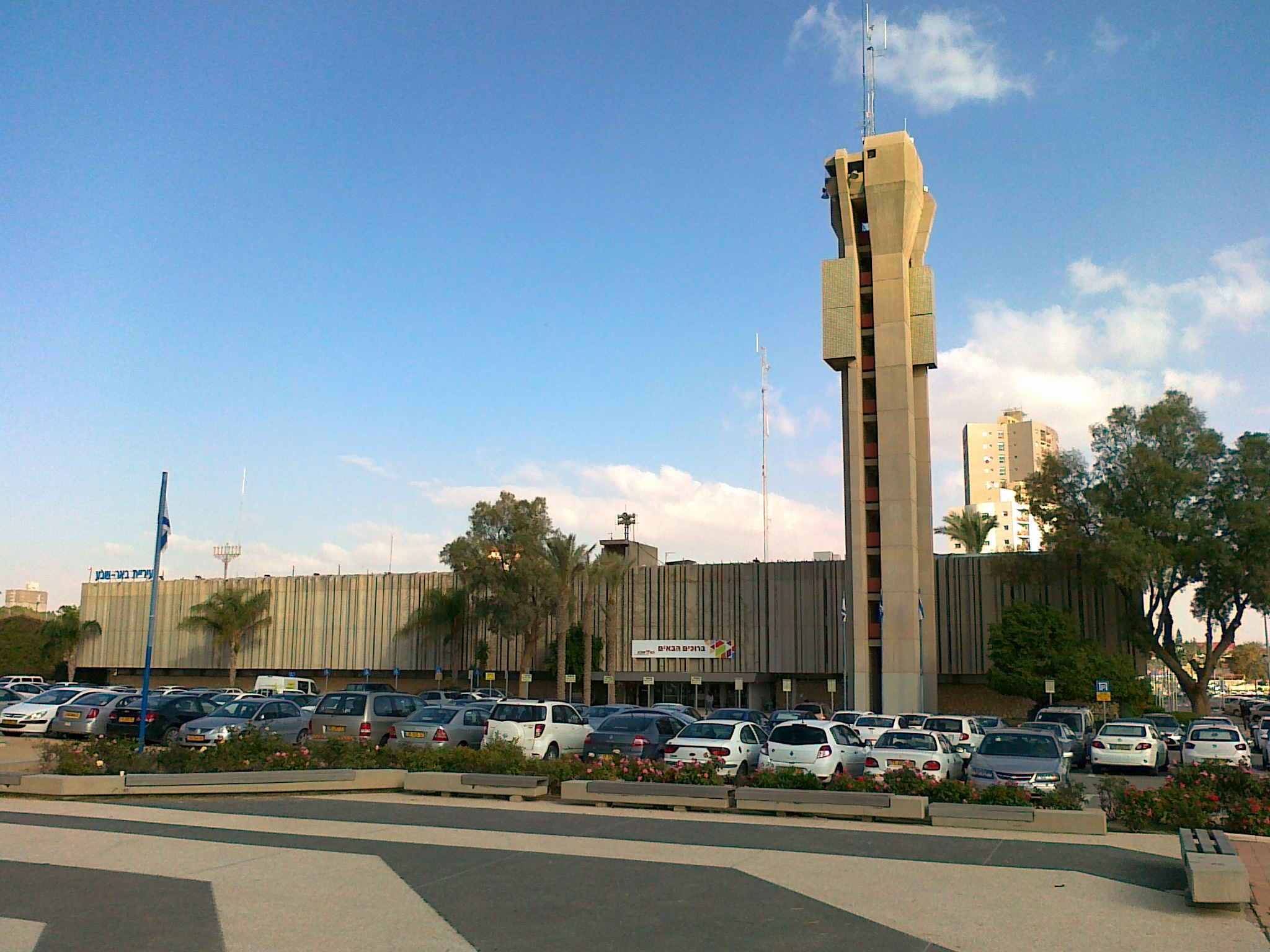 Beersheba City Hall, 2013